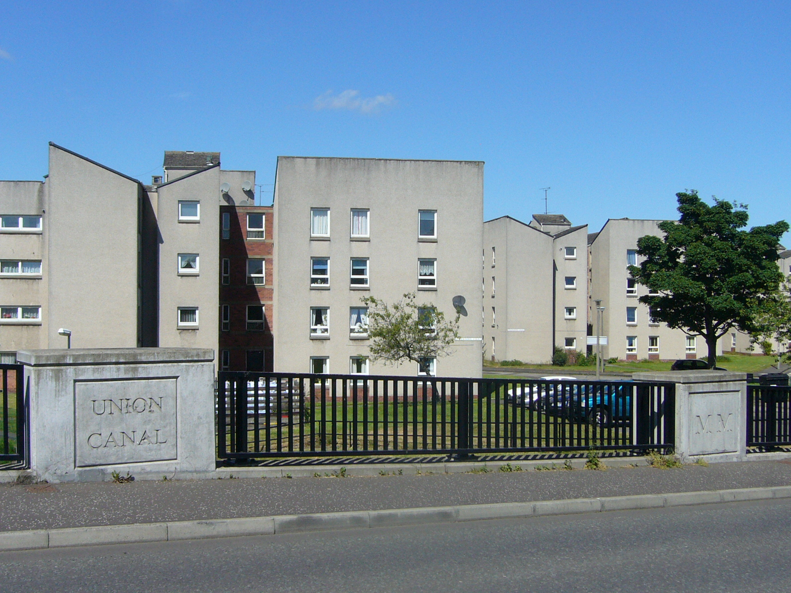 1960s Council housing scheme, Kingsknowe Edinburgh